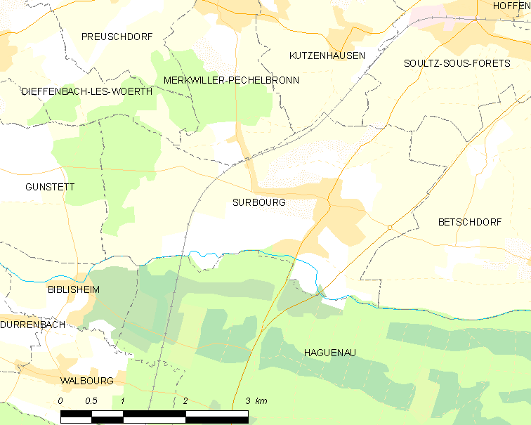 Map of French municipality